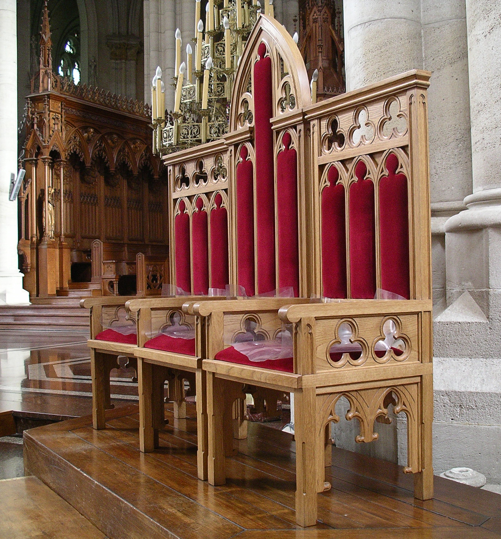 The archbishop's throne, carved by Miguel Schenke, in the Cathedral of La Plata, Catedral de la Plata.